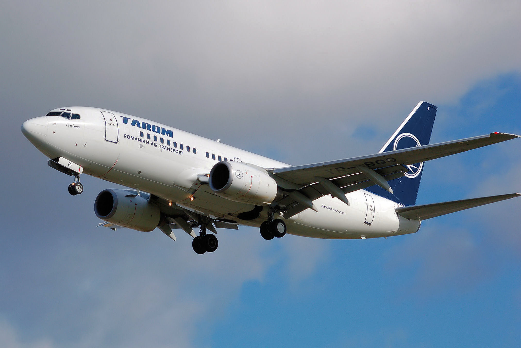 Tarom Boeing 737-700 (YR-BGG) landing at London Heathrow Airport.